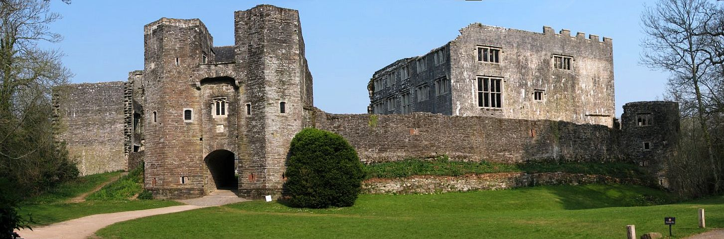 Panorama of front of Berry Pomeroy Castle, Devon, UK